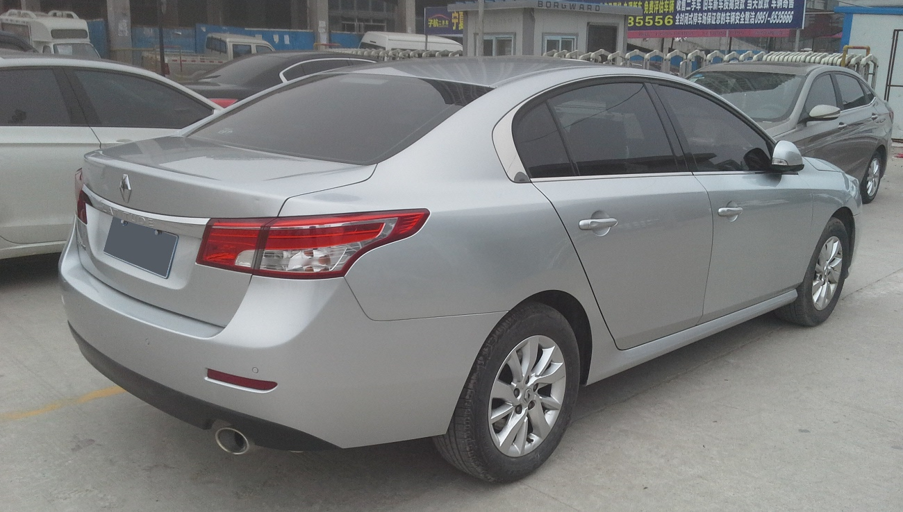 Renault Latitude facelift photographed in Yinchuan, Ningxia province, China.